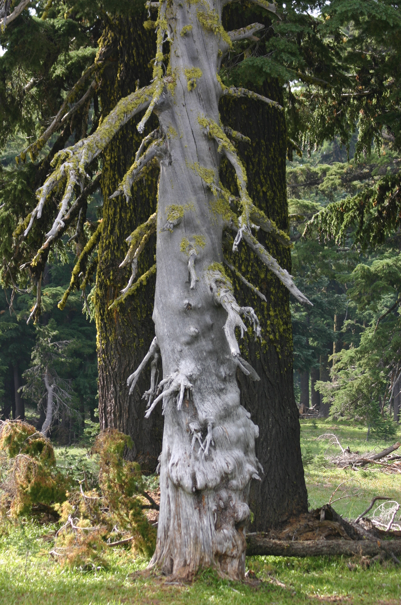 The white spiral bark of the dead tree stands out before the dark bark of two living Tsuga mertensiana trees. Taken at Sun Notch, Crater Lake National Park, Oregon, USA.